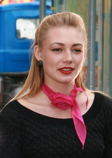 Oksana Akinshina and Igor Voynarovsky on Independence avenue, Minsk (production of "Stilyagi")